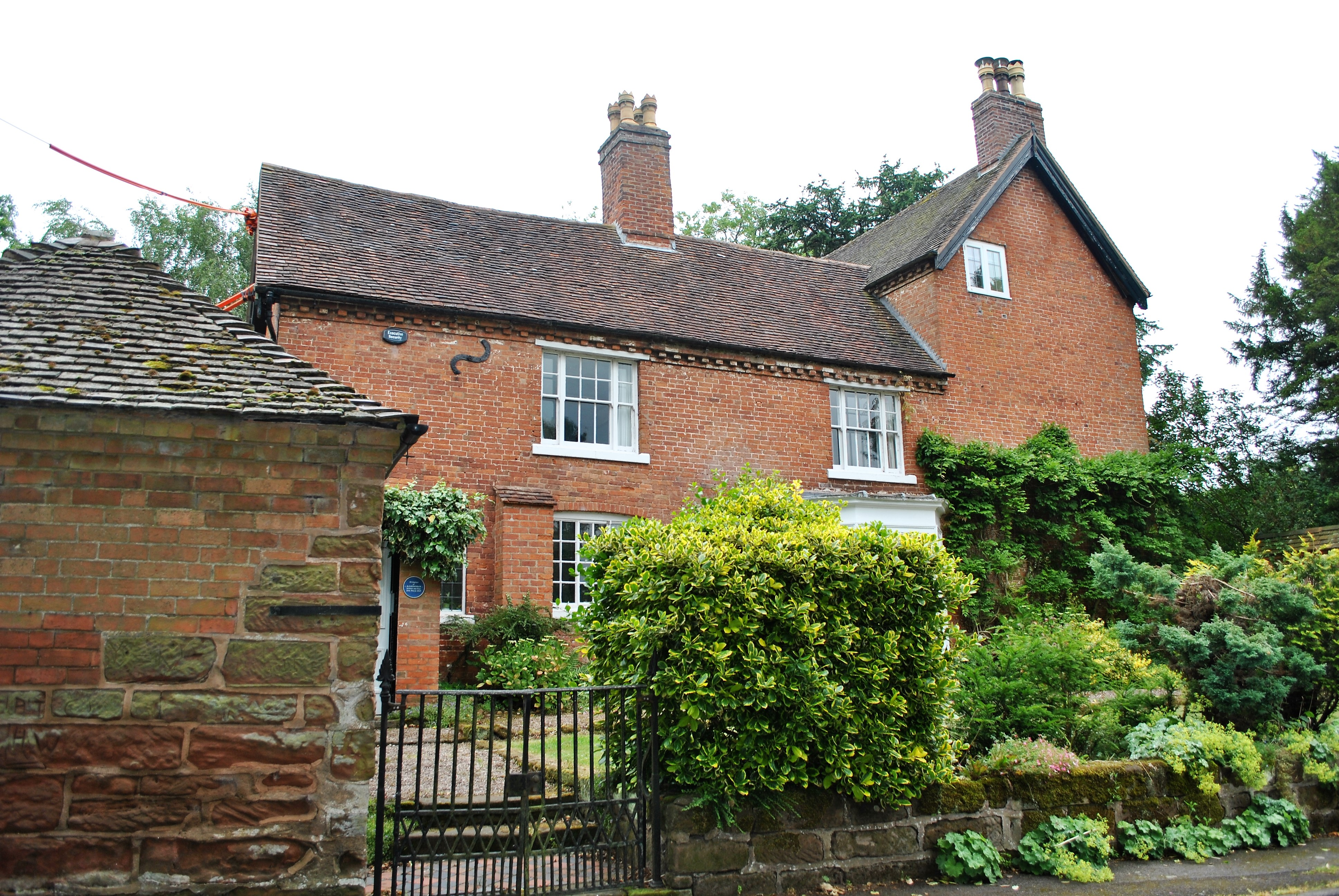 Birthplace of A.E. Housman, Scholar and Poet, 26th March 1859